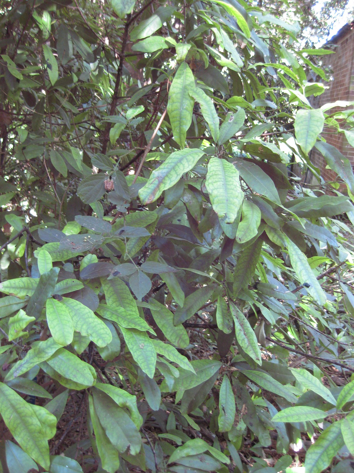 Photographed at the Royal Botanic Gardens Sydney (Australia) in December